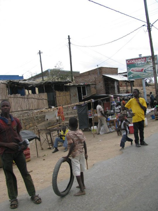 Taken on the road out of Tete, Mozambique